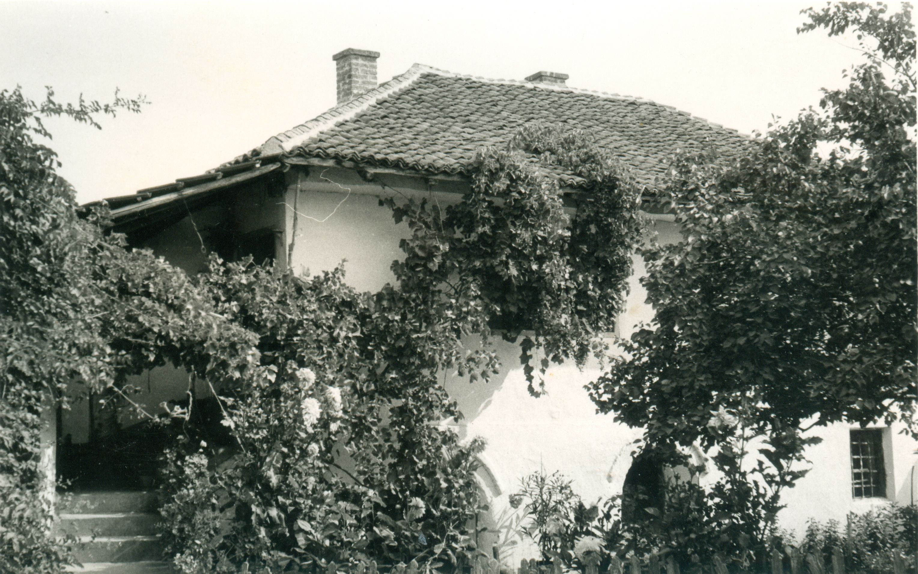 The birthplace of Stanko Paunovic in Brestovac near Negotin Srpski (latinica): Kuća u kojoj se rodio Stanko Paunović u Brestovcu kod Negotina